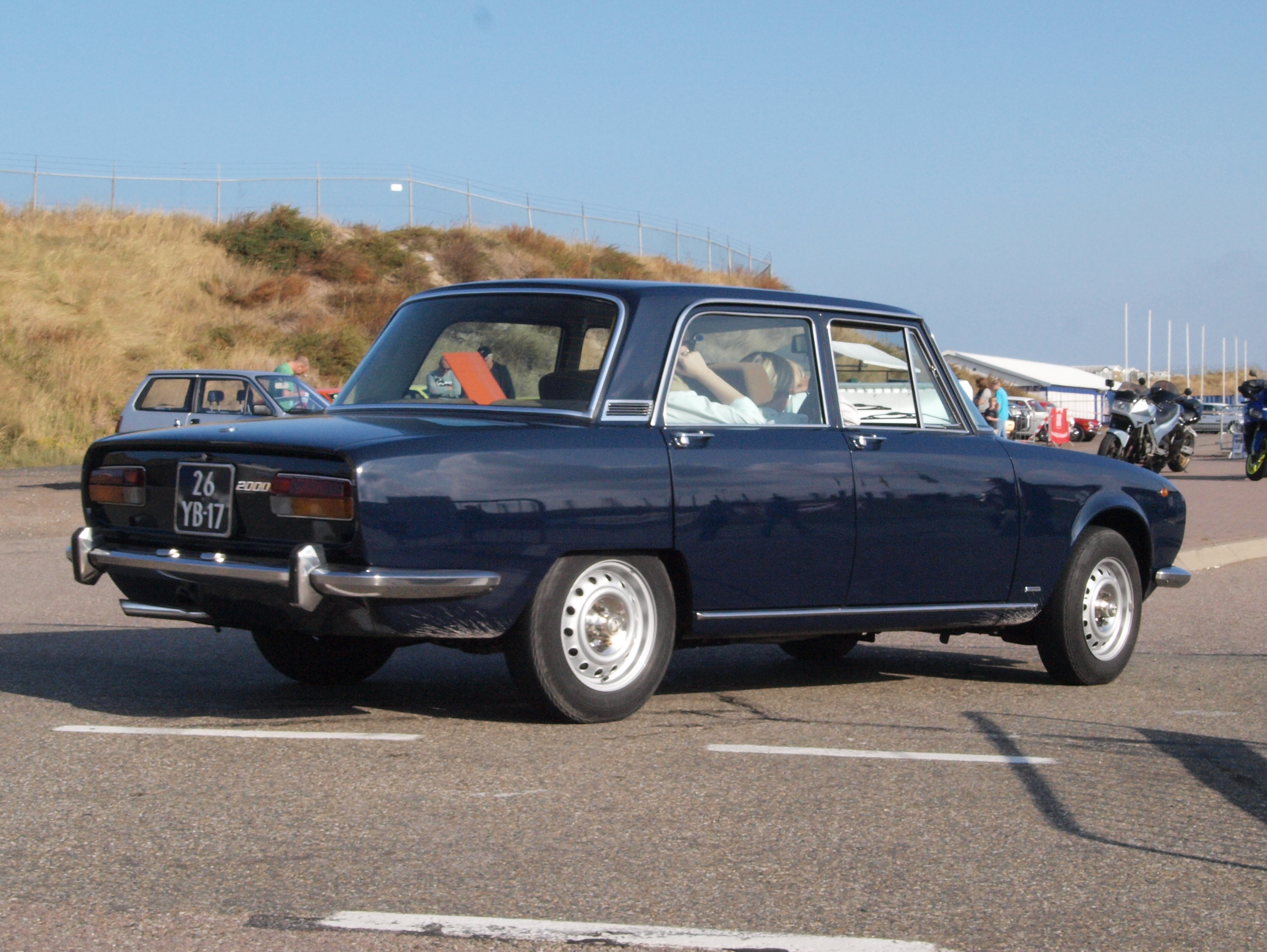 Photographed at the Nationaal Oldtimer Festival Zandvoort 2009, The Netherlands. OLYMPUS DIGITAL CAMERA